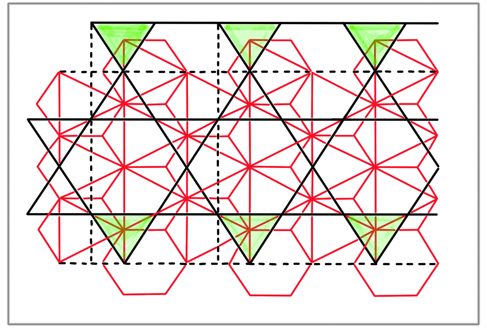 Atomic structure of attapulgite (from de Lapparent, 1938). Projection of the tetrahedral layer (black) on the octahedral layer (red). Green triangles are the tetrahedrons with H4 centers. Image width: about 20 angströms.